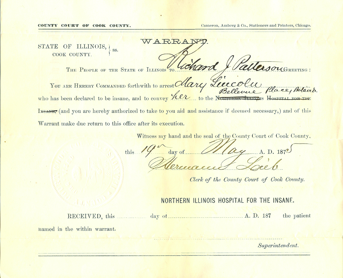 Arrest warrant issued for Mary Todd Lincoln by clerk of County Court of Cook County, IL, 1875.